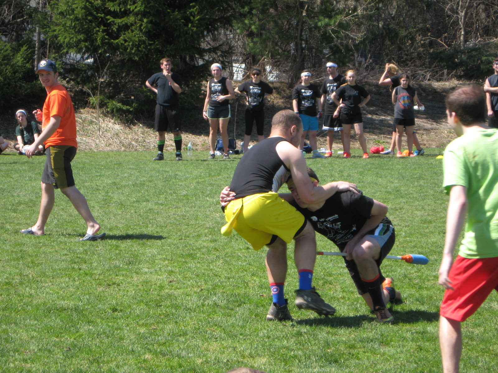 Charity ('mercenary') quidditch tournament hosted by the Syracuse University club quidditch team, Lower Hookway Field, Syracuse University, April 18, 2015